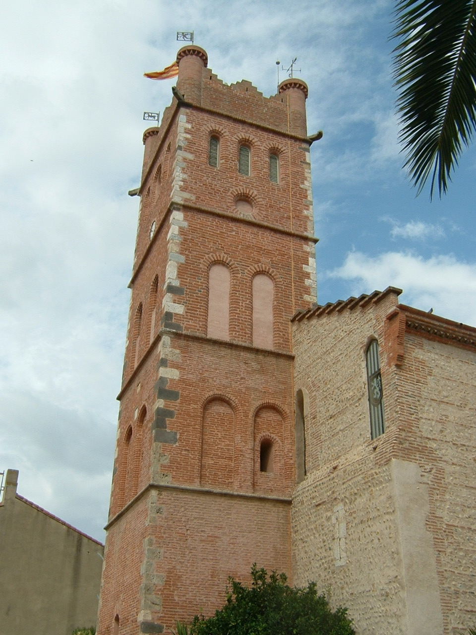 Canet-en-Roussillon (département of Pyrénées-Orientales, Languedoc-Roussillon région, France) : Saint-Jacques church. The belltower, built in the XVIth century on top of a tower which was part of the village fortification wall.